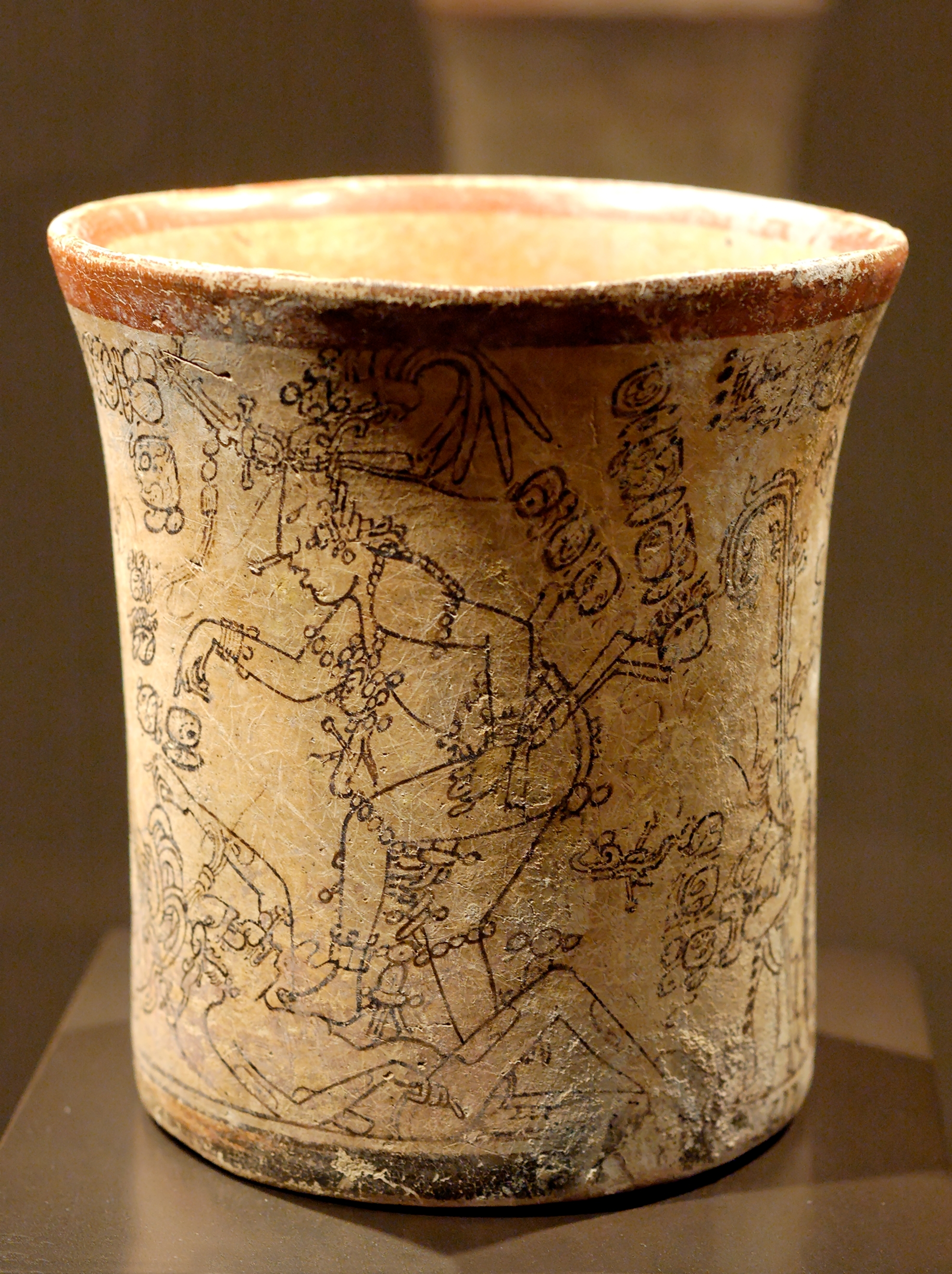 Maya vase of the codex style, representing a lord of the underworld stripped of his clothes and headgear by the young Maize divinity, assisted by a midget and a hunchback. Terracotta, northern Petén (Guatemala), 7th-10th century.